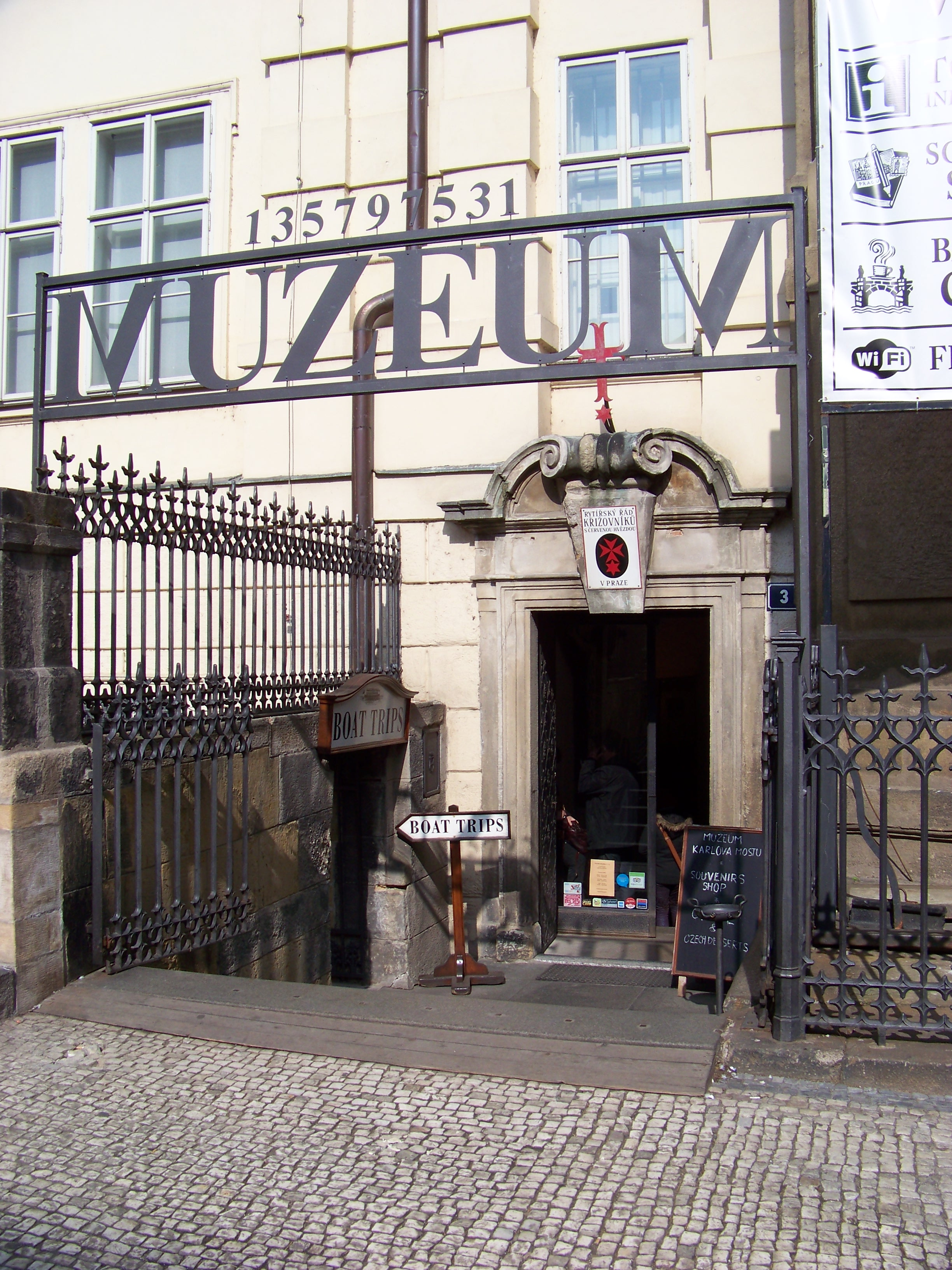 Prague-Old Town, Czech Republic. Křižovnické náměstí, a monastery, Museum of the Charles Bridge.